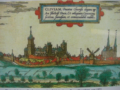 informationpanel by theSwancastle at Kleve, Germany